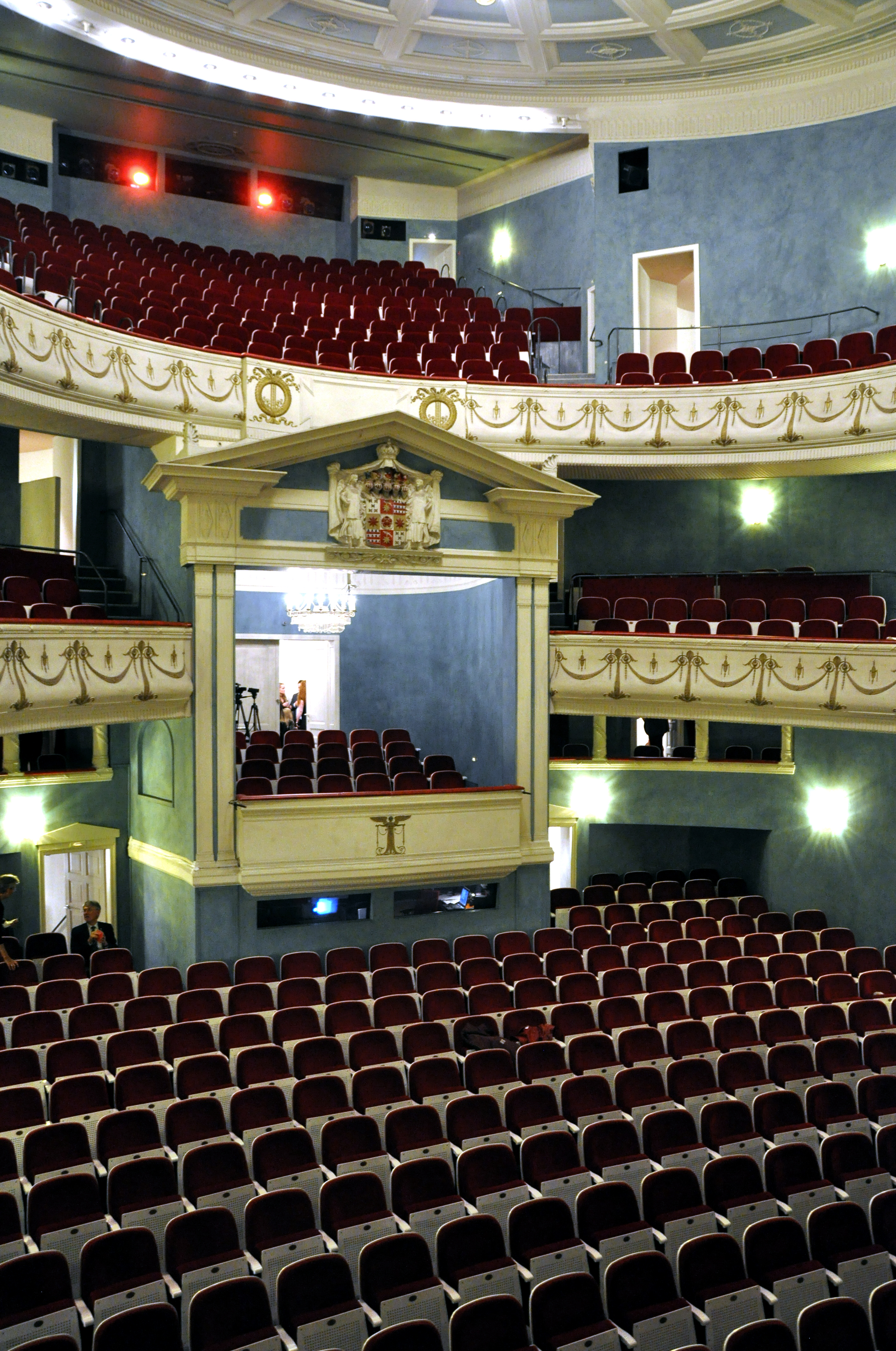 Detmold, Landestheater